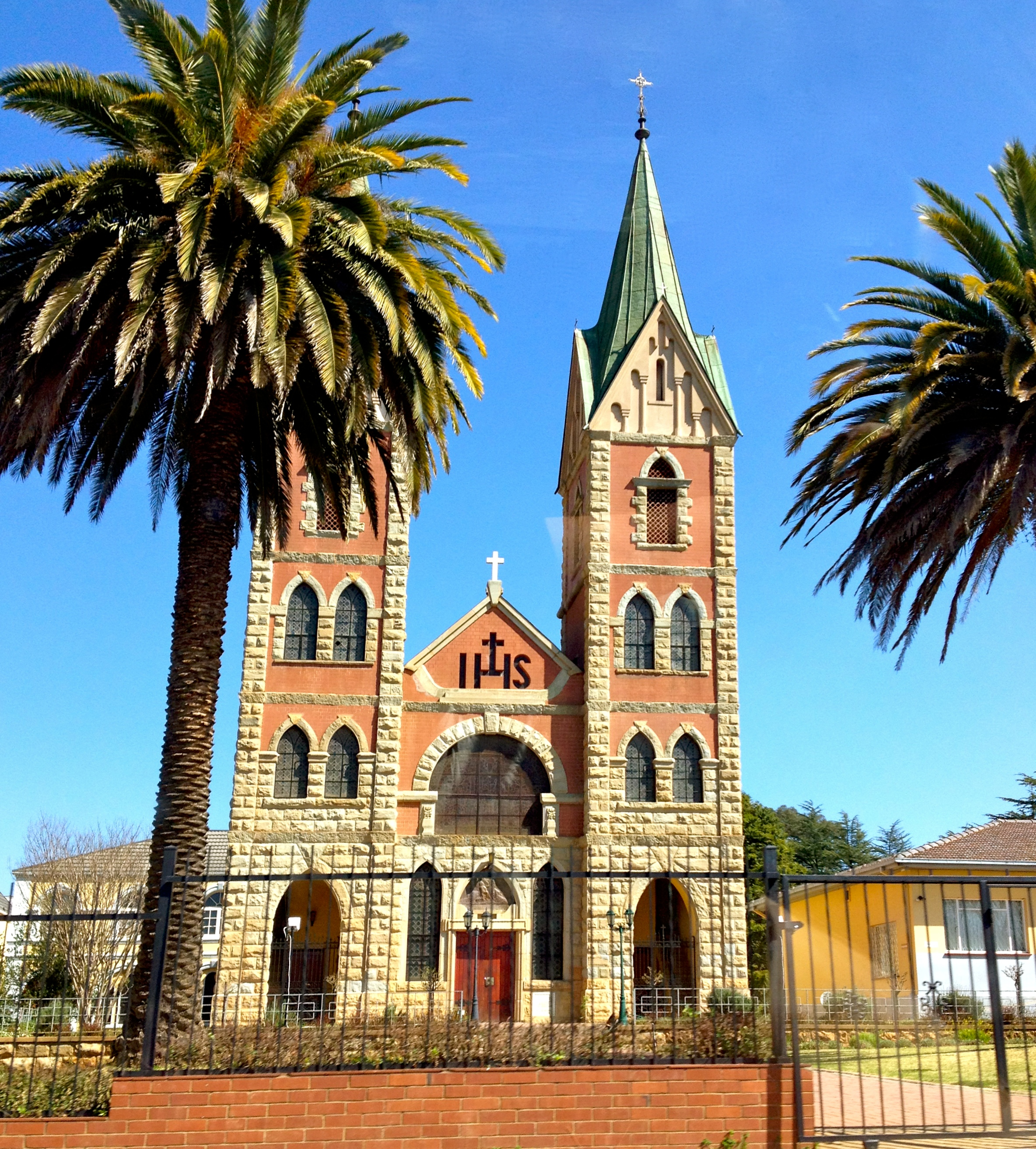 Image of the Catholic church Kokstad. KwaZulu-Natal, South Africa